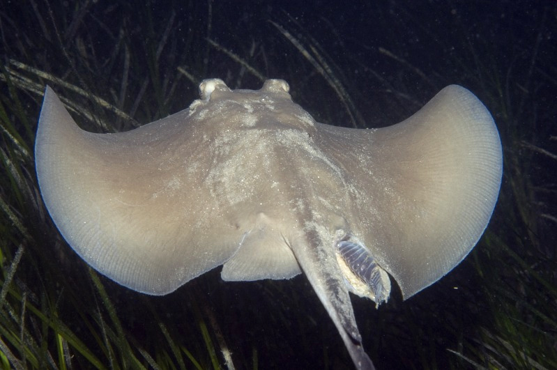 A sparsely-spotted stingaree (Urolophus paucimaculatus) with a large parasitic isopod attached near the tail, at Corner Inlet, Wilsons Promontory, Victoria.